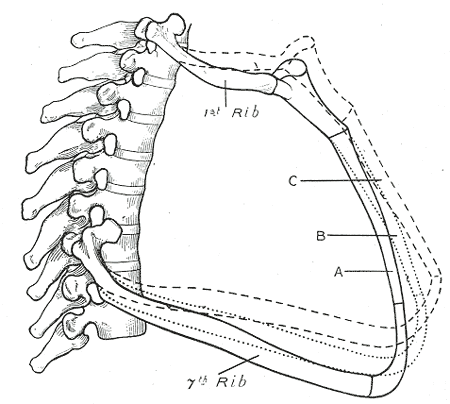 Lateral view of first and seventh ribs in position, showing the movements of the sternum and ribs in A, ordinary expiration; B, quiet inspiration; C, deep inspiration.